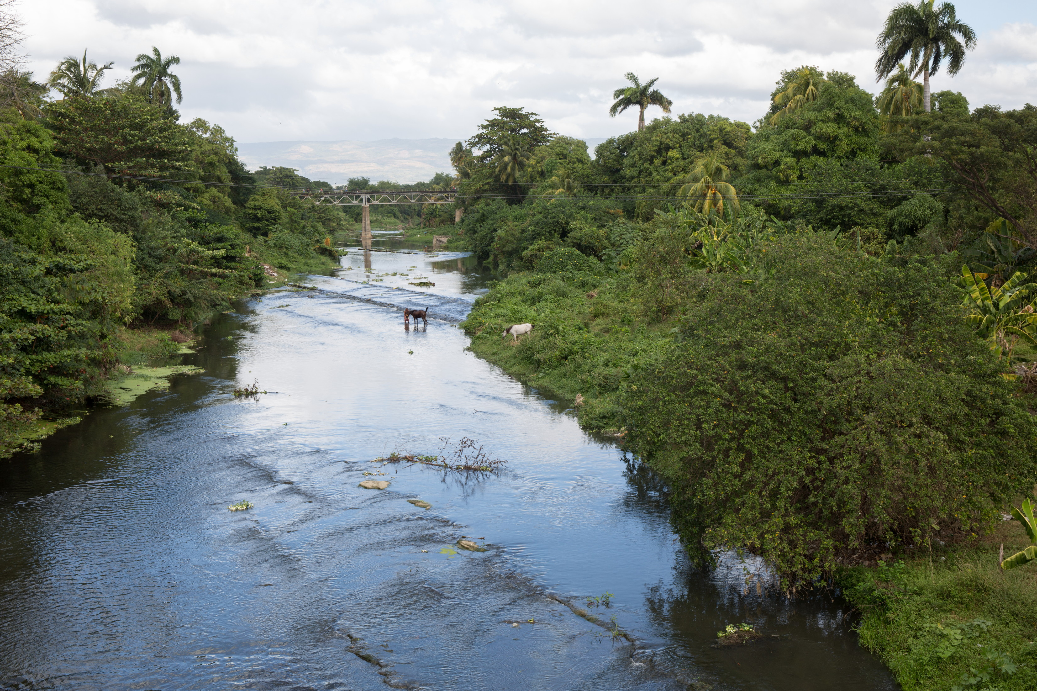 Guantánamo provicial capital, Rio Guaso